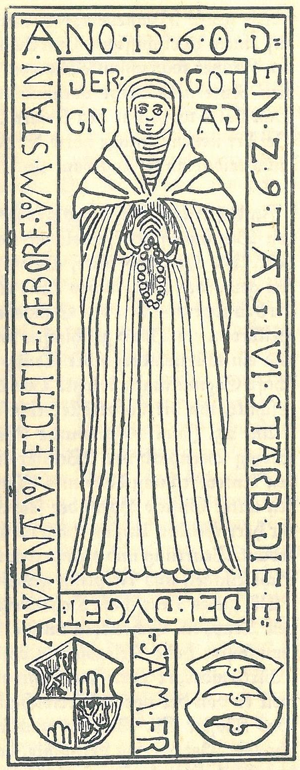 Monument for Anna von Leichtle born vom Stain in the convent church of Urspring, nun in the monastery of Urspring, died in the monastery of Urspring 29th June 1560